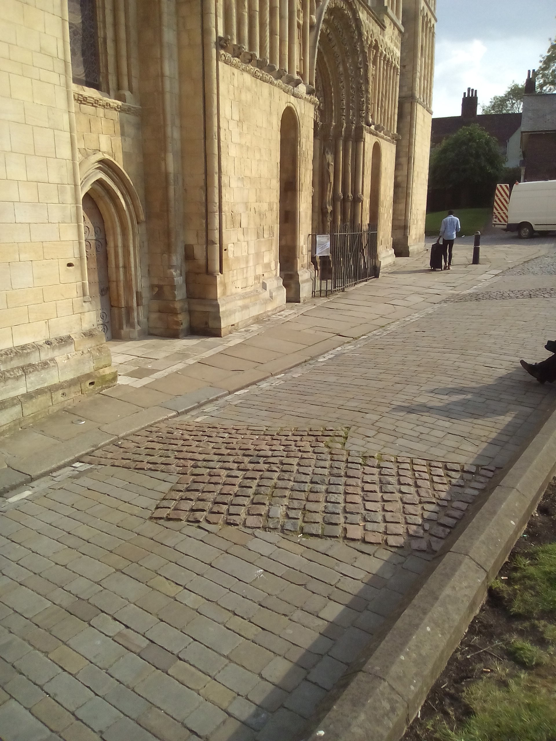 A street paved in smooth sets with rougher sets crossing the street on the diagonal.